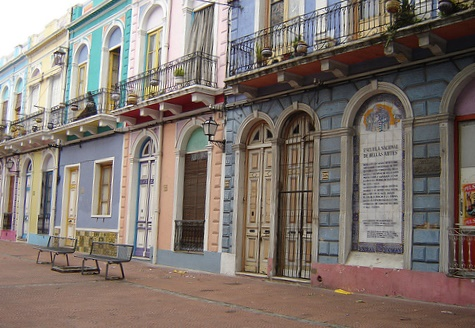 Colourful street at the Jewish neighbourhood of Reus in Montevideo, Uruguay.